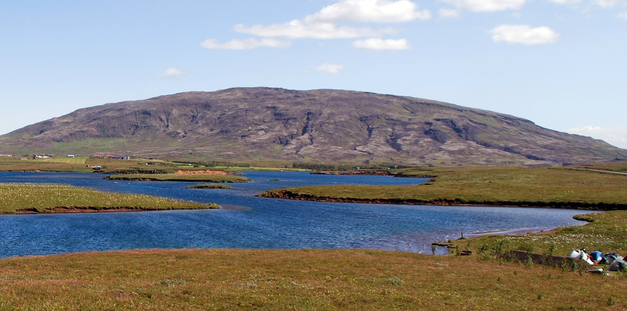 Mount Búrfell in municipality Grímsnes og Grafningur, with part of lake Úlfljótsvatn